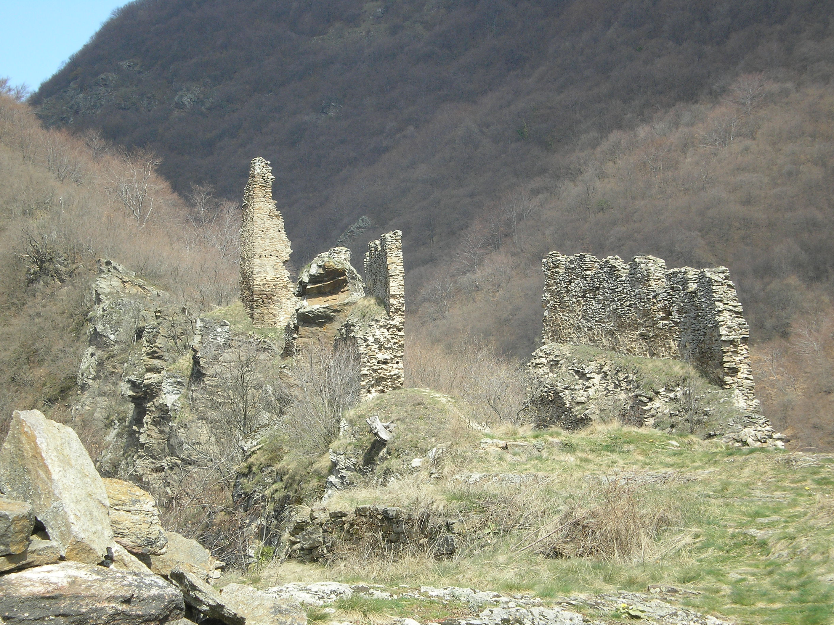 interior of Markovo Kale Fortress in Southern Serbia